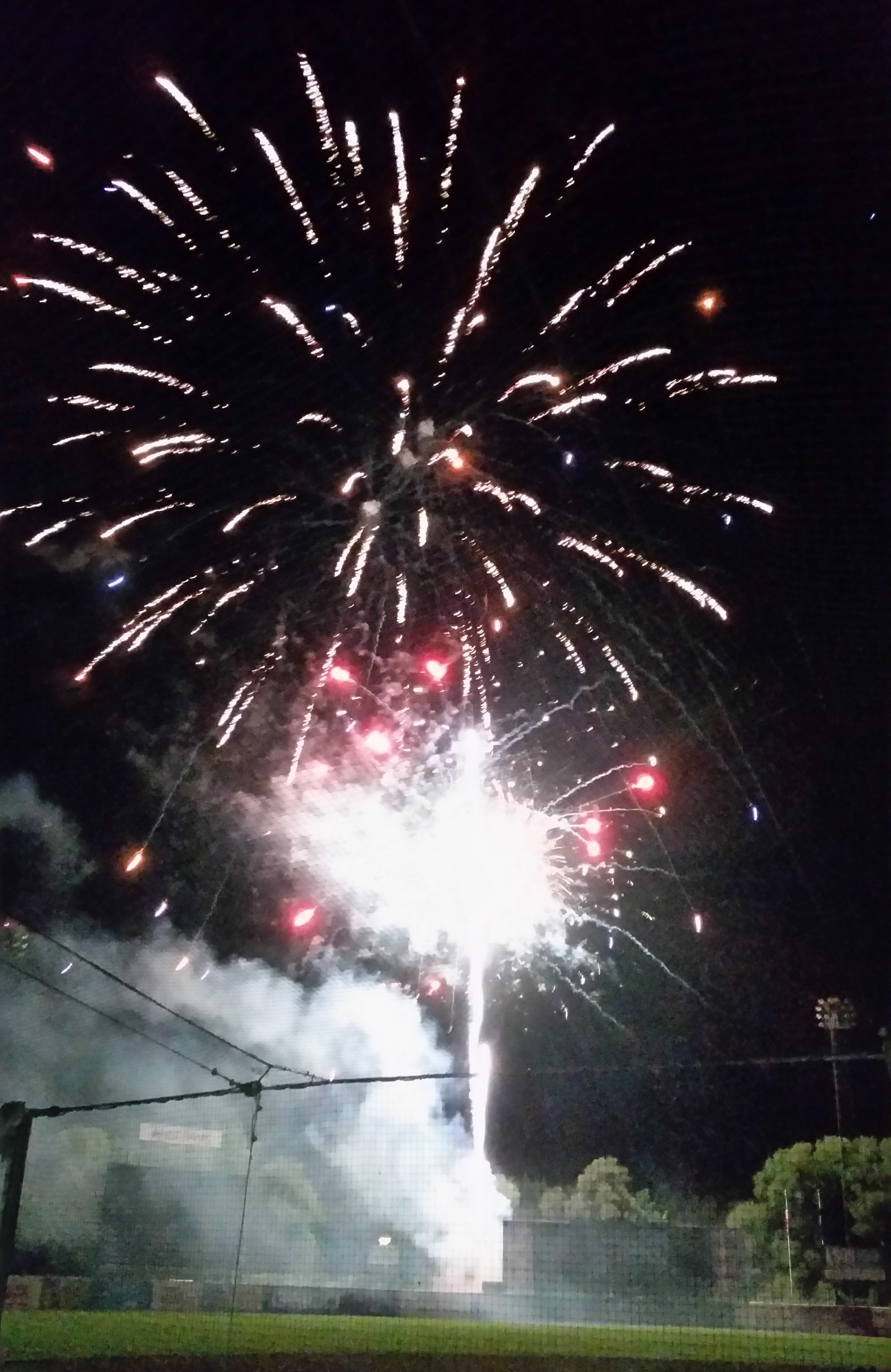 Fireworks following Syracuse Chiefs home game at NBT Bank Stadium, Syracuse, NY